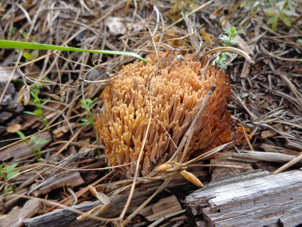 Ramaria flavescens. Found in Lilaste place, Rīga town, Latvia